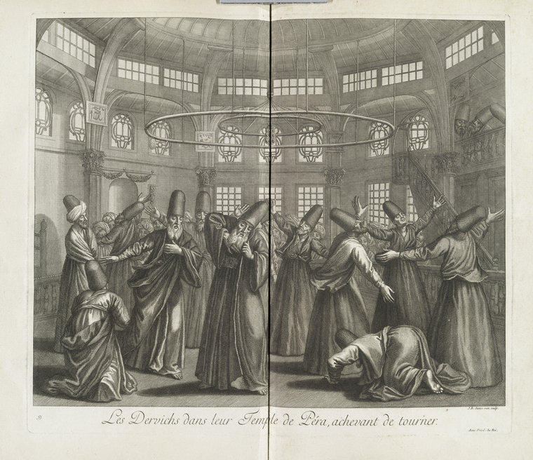 Illustrations of Ottomans by Jean-Baptiste Vanmour, 1707